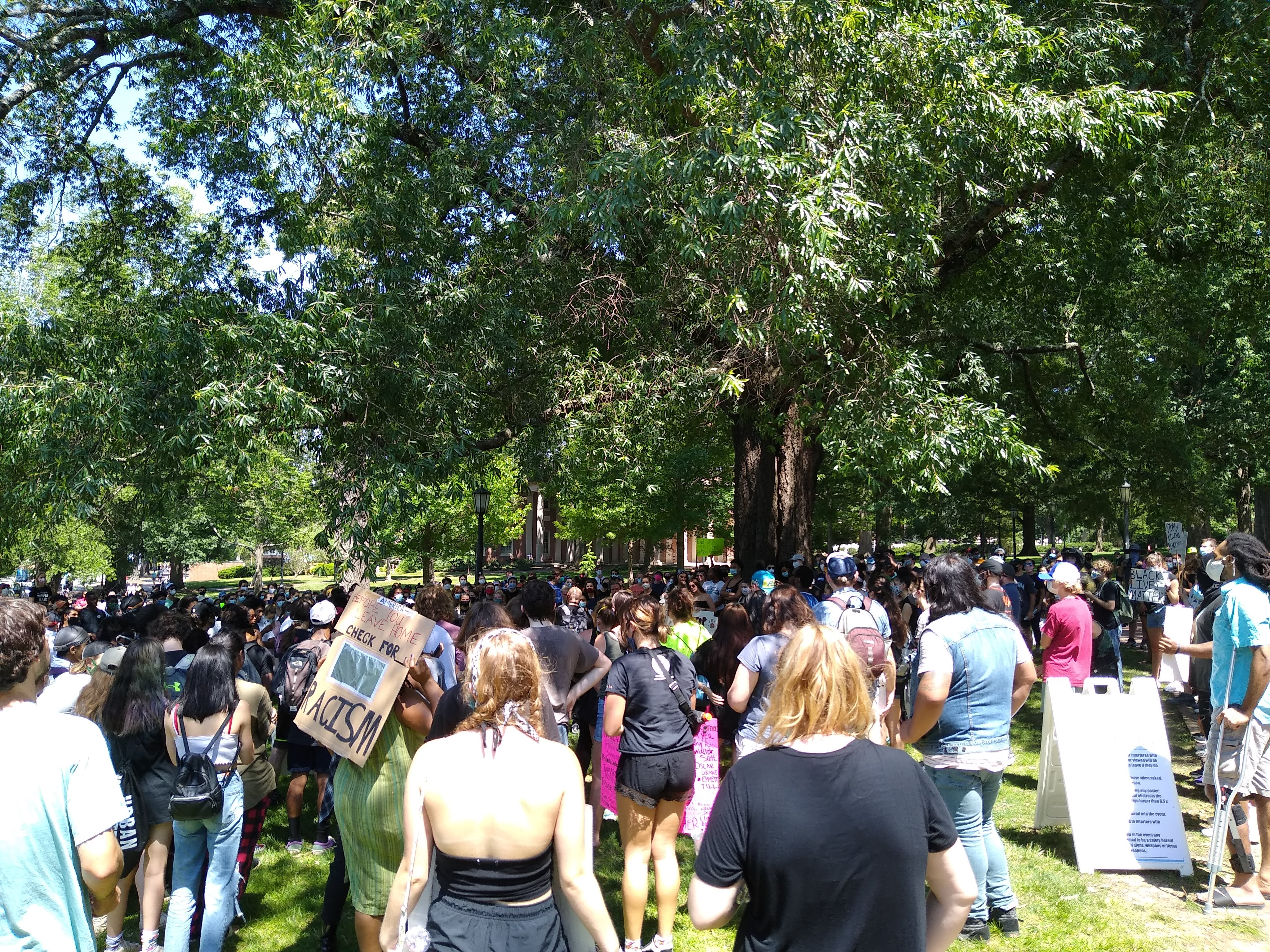 A protest in response to the death of George Floyd, on June 3, 2020, in Chapel Hill, North Carolina. Protestors are listening to a speaker talk about racism.